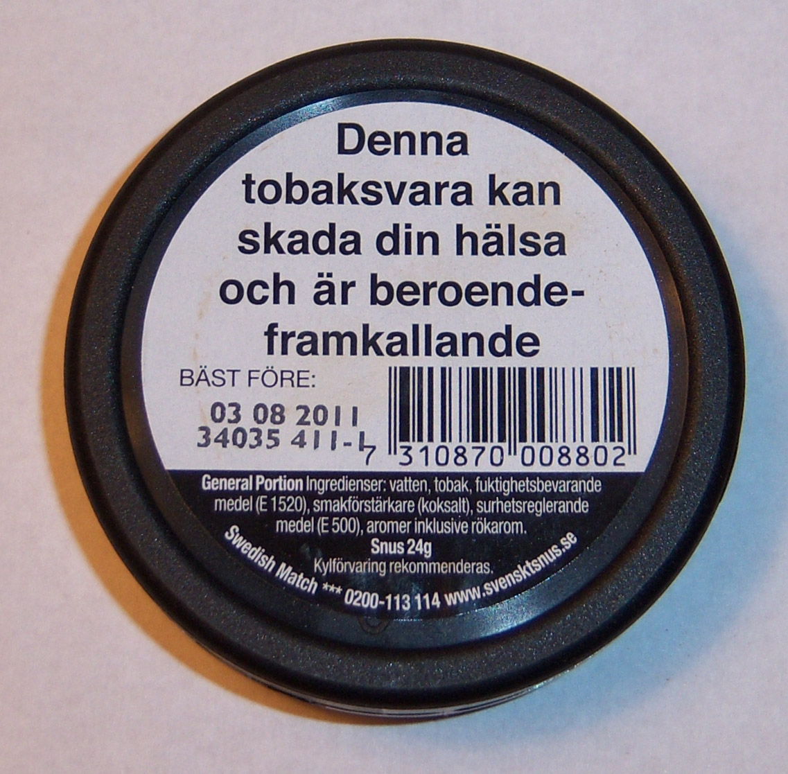 Back of a can of General portion (Swedish Match) showing the warning label and ingredients.